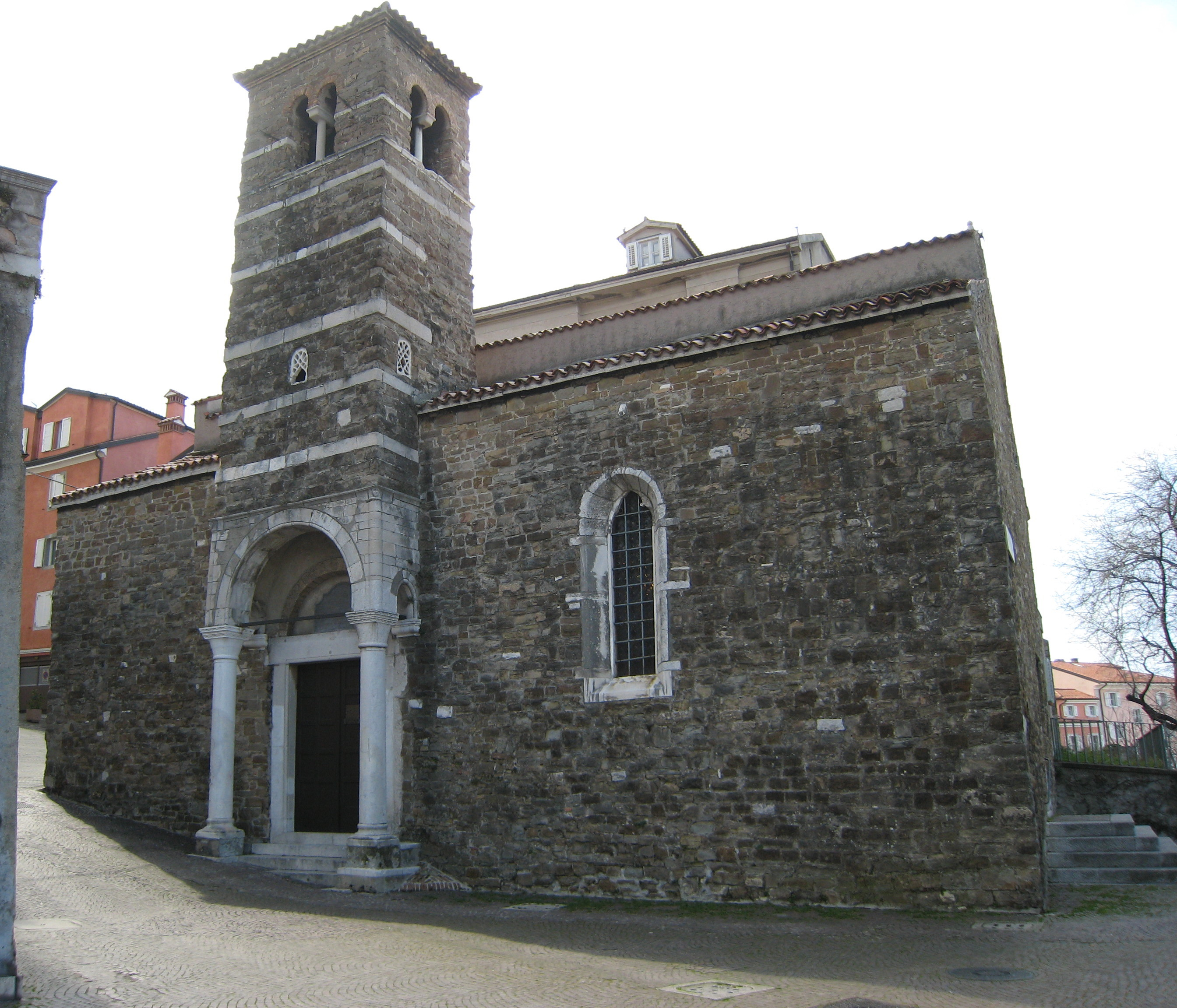 San Silvestro church in Trieste